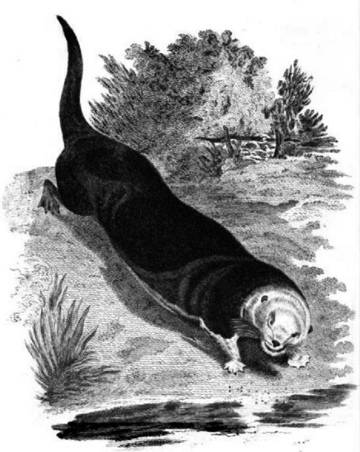 Drawing of sea otter